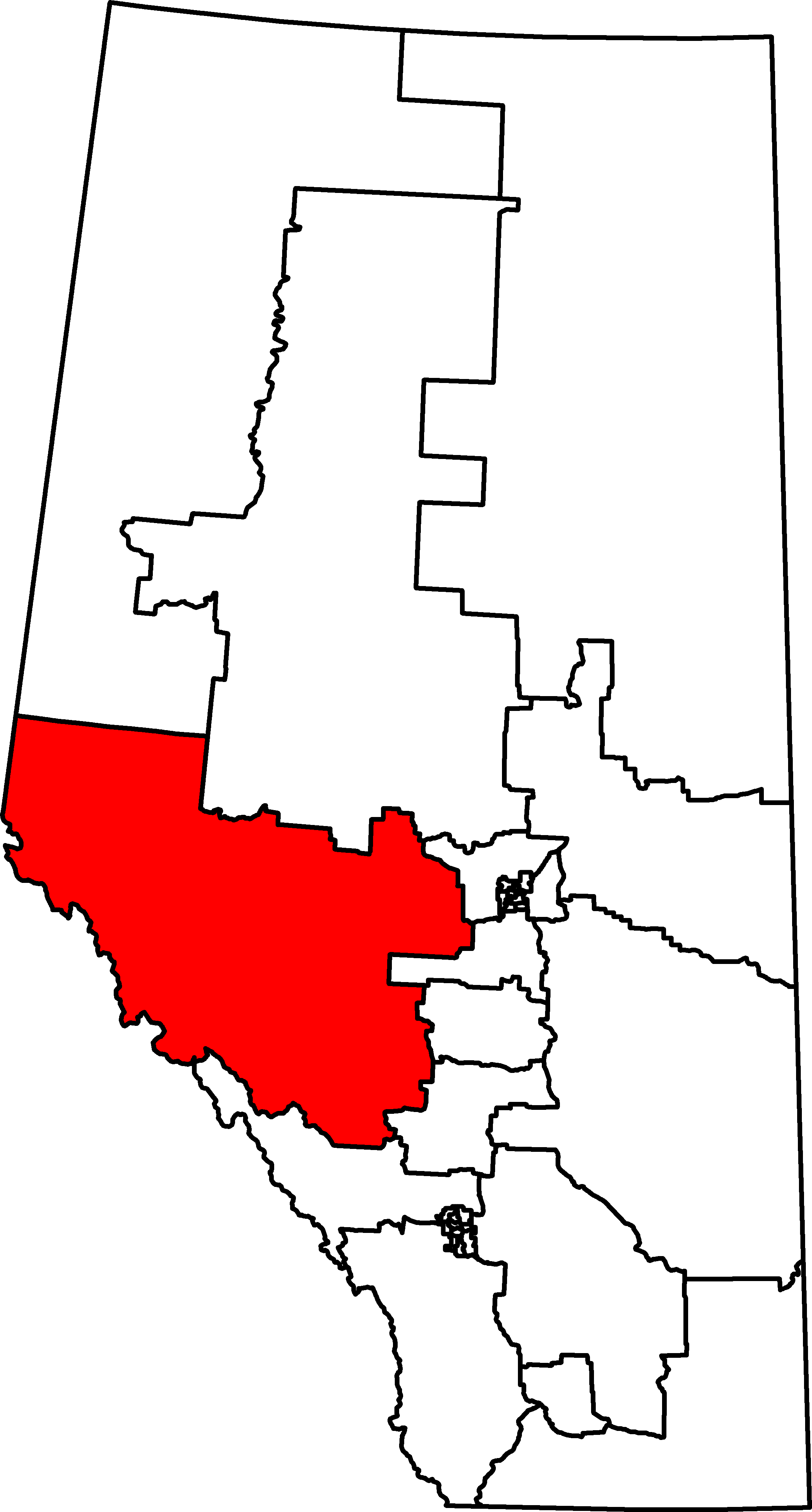 Federal Electoral District in Alberta, Canada as of the 2013 Representation Order.